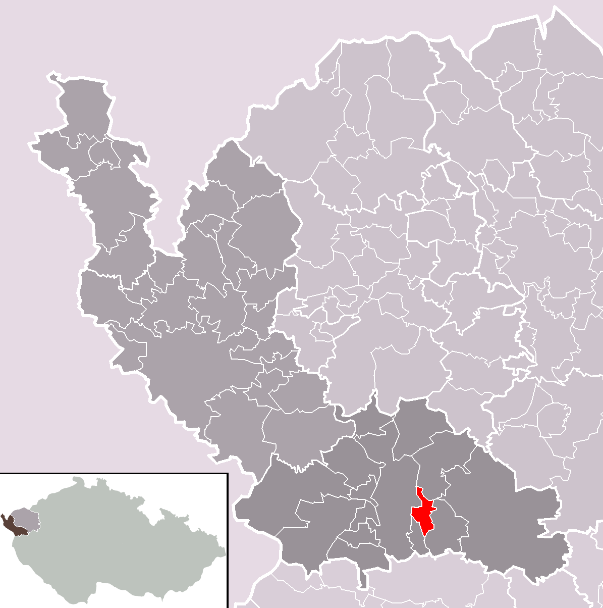 Location of Zádub-Závišín municipality within Cheb District and administrative area of Mariánské Lázně as a Municipality with Extended Competence.